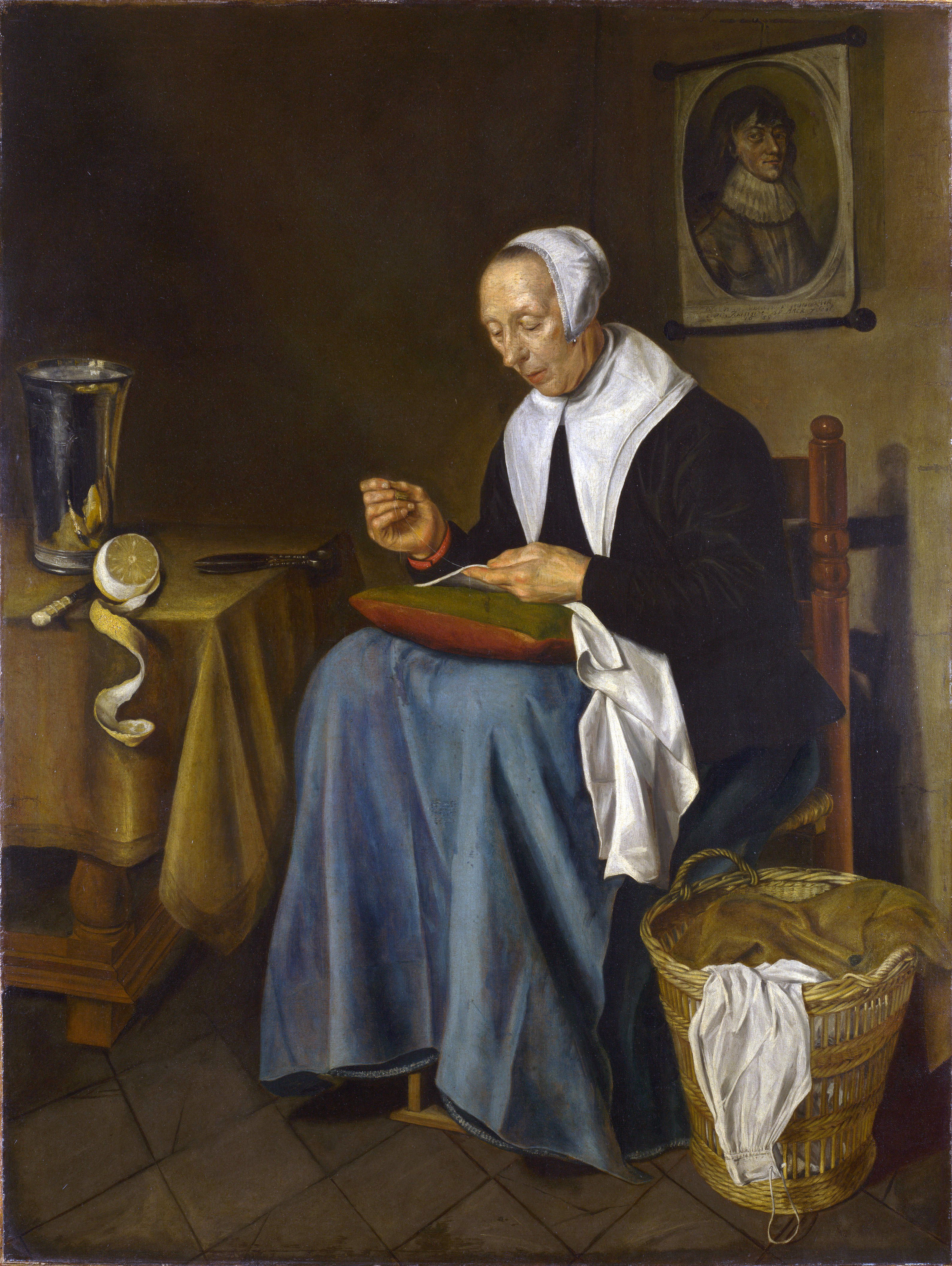 An Old Woman seated sewing